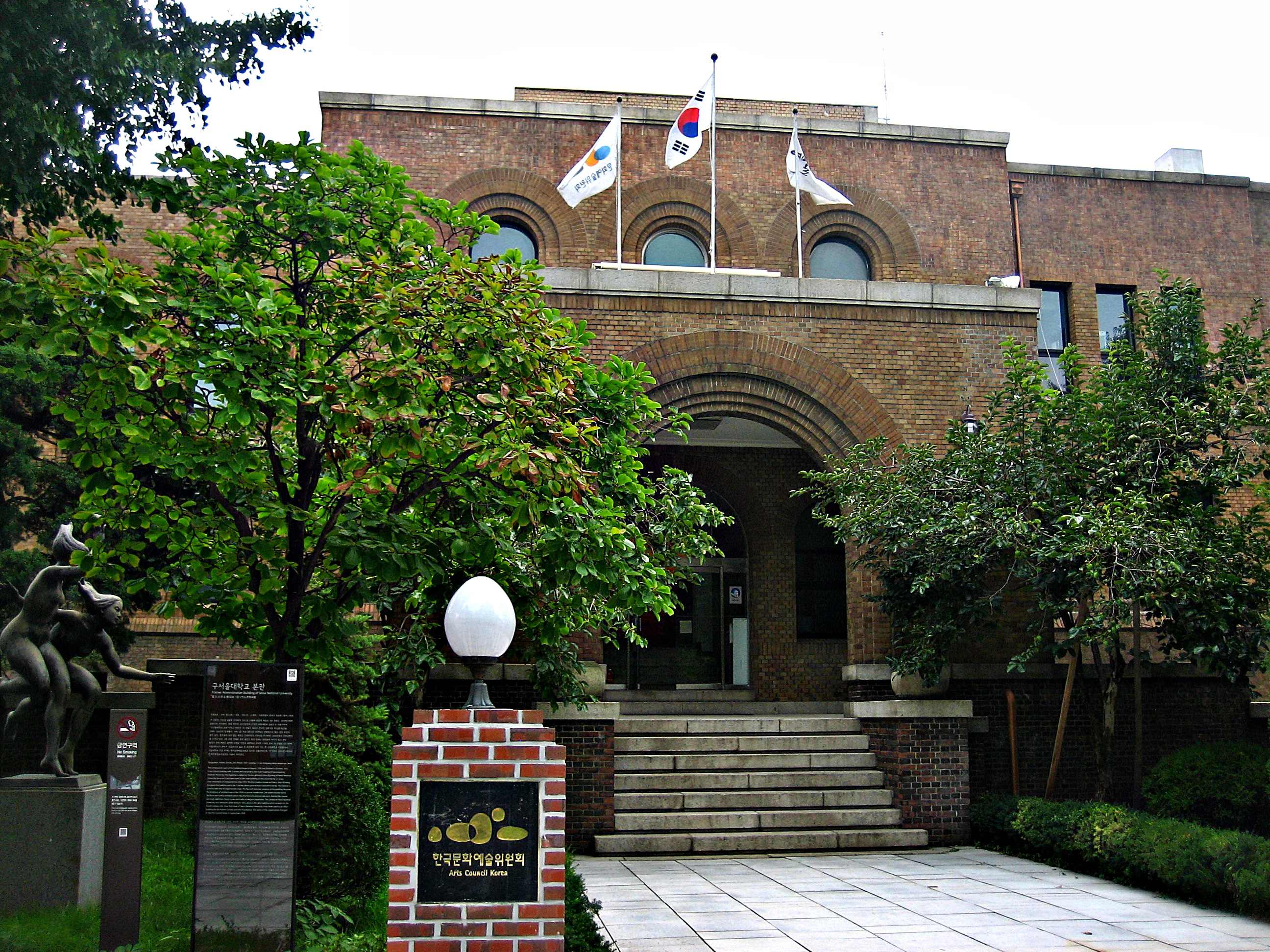 Former administrative building of Seoul National University in Dongsung-dong, Jongno-gu, Seoul, Korea